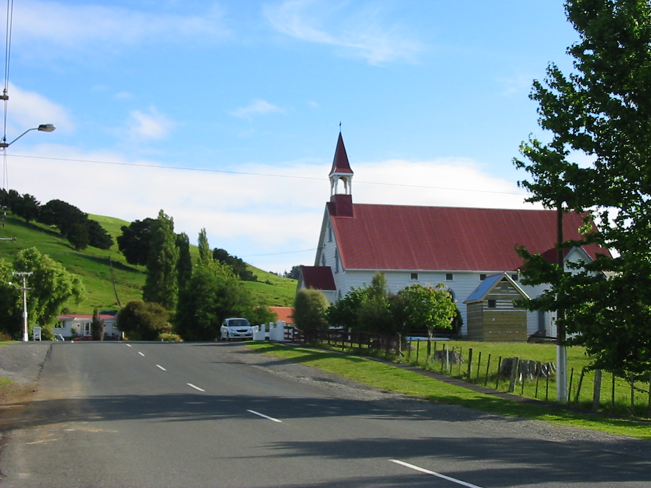 Church of St Peter and St Paul (Catholic), on Puhoi Road, Puhoi, North Auckland, New Zealand. New Zealand Historic Places Trust Register number: 83. I, Dick Real, took this photo on an empty stomach. I own the image and look at it daily.